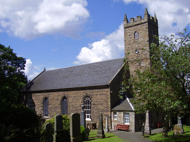 Tranent Parish Church. Built in 1800 to replace a much earlier church. Contains the graves of Colonel Gardiner, killed at the Battle of Prestonpans and the wealthy Cadell family.